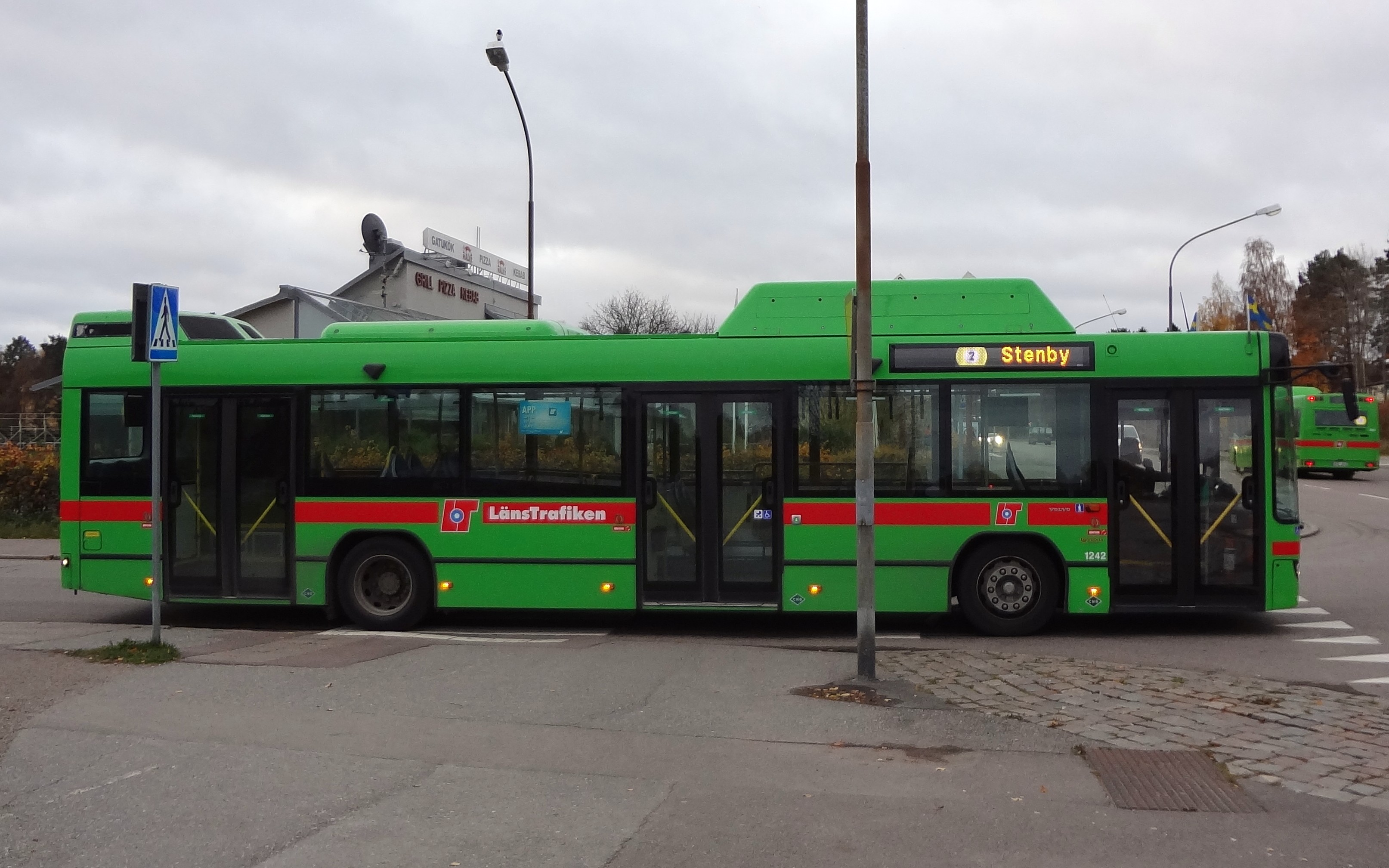 Buss in Eskilstuna